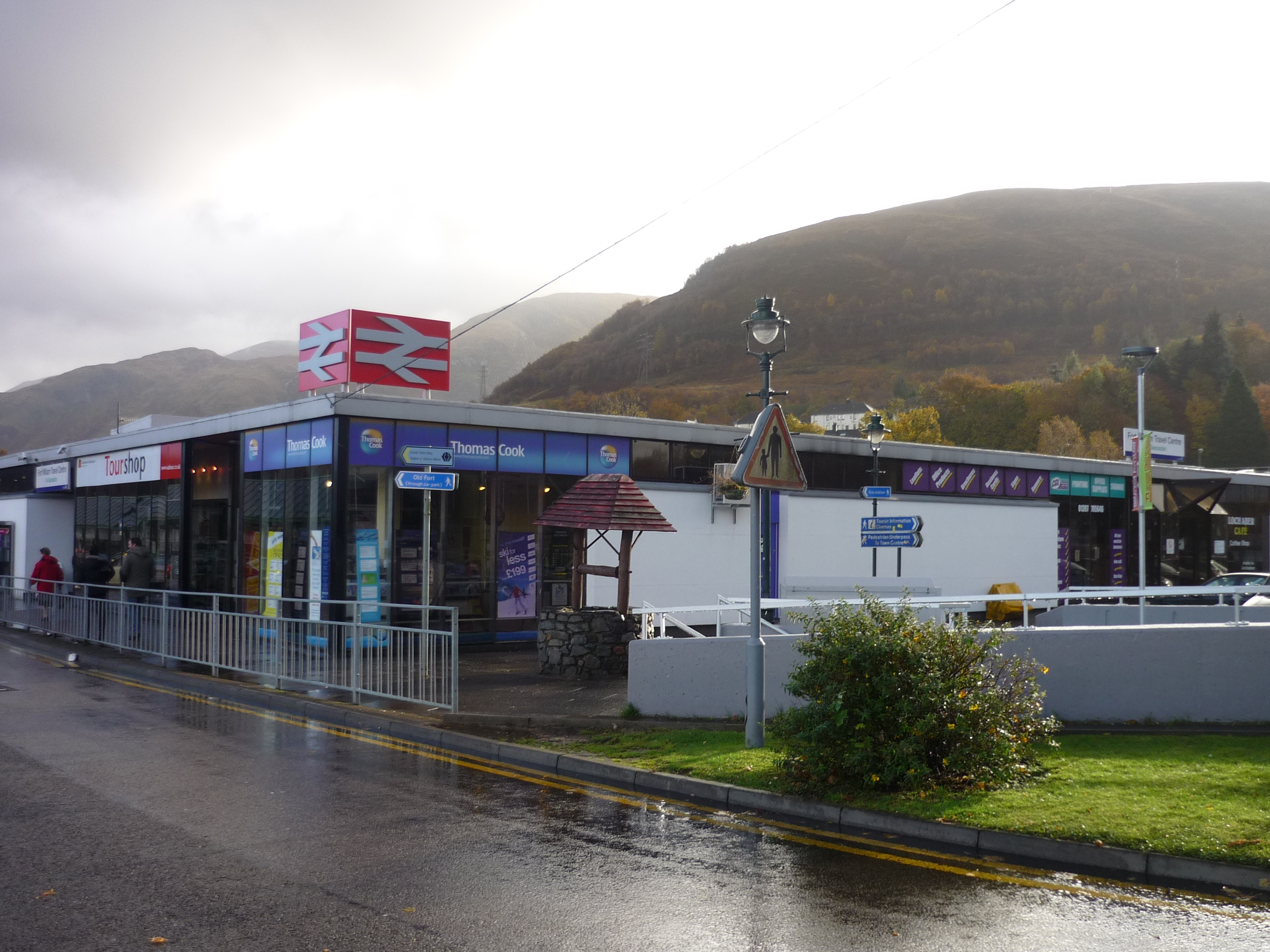 Fort William (Scotland) Railway Station, view from outside the station